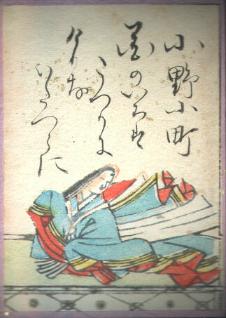 A portrait of Ono no Komachi; illustration from an uta-garuta playing card for Hyakunin Isshu, created in the Edo period.